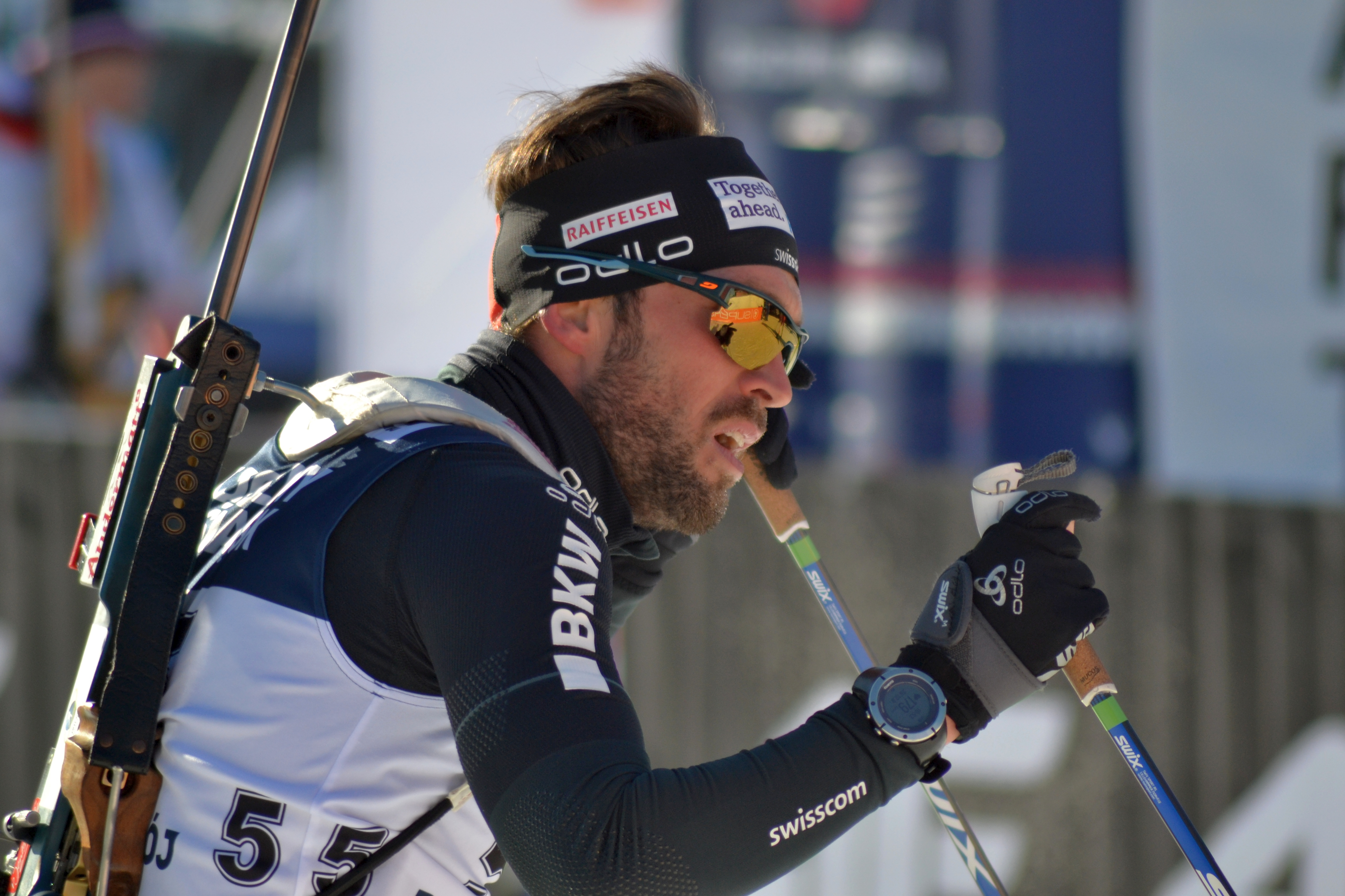 Open European Championships Biathlon 2017, Sprint Men's race, held on January 27th.